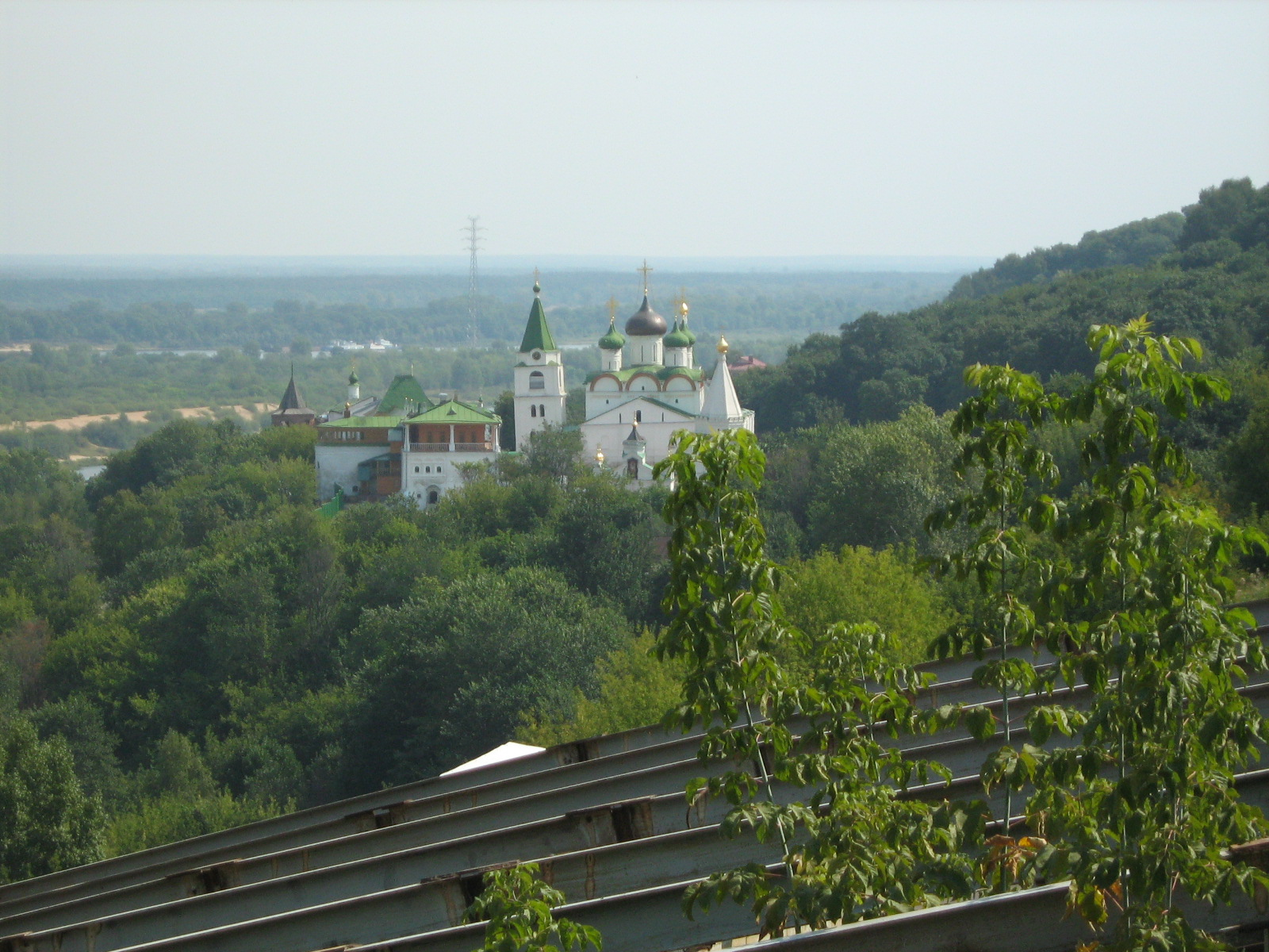 A view of Pechersky Ascension Monastery (Nizhny Novgorod), seen from near Sennaya Sq.